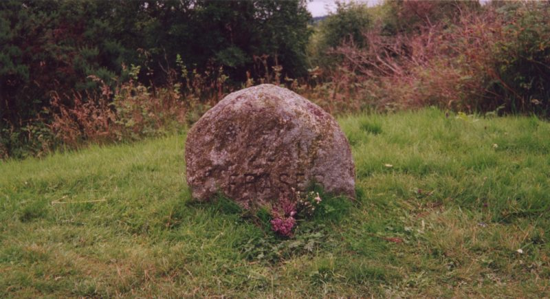 Photo of Clan Fraser's gravestone located on the site of the Battle of Culloden. The source of this photo is this weblink. The photographer who took this photo was Aurore Lopez. The copyright/permission to use this photo was discussed between the photographer and en-wikipedia user Canaen.